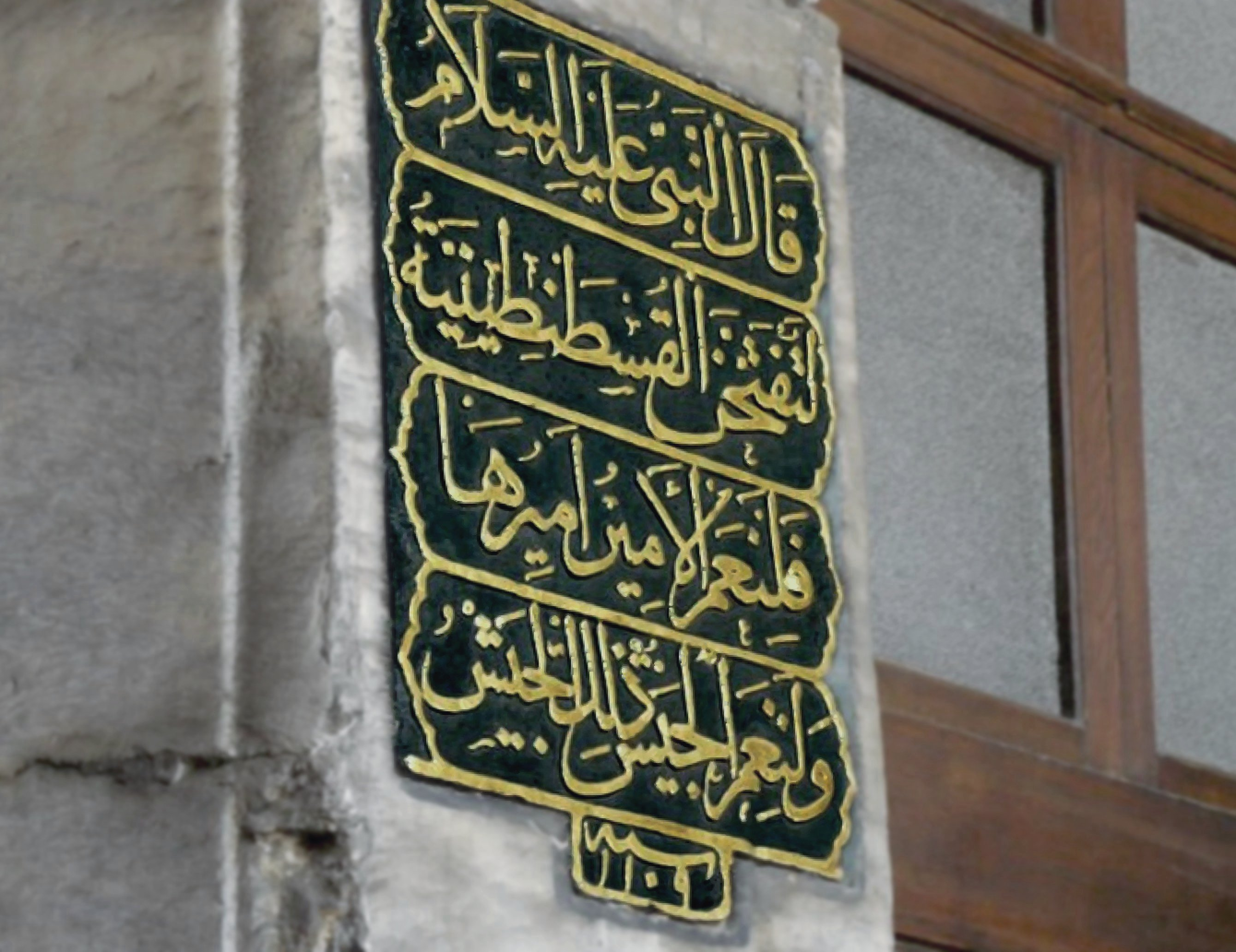 The prophecy of Muhammad about the Islamic conquest of Constantinople: "Verily you shall conquer Constantinople. What a wonderful leader will he be , and what a wonderful army will that army be!" on the gate of Hagia Sophia.